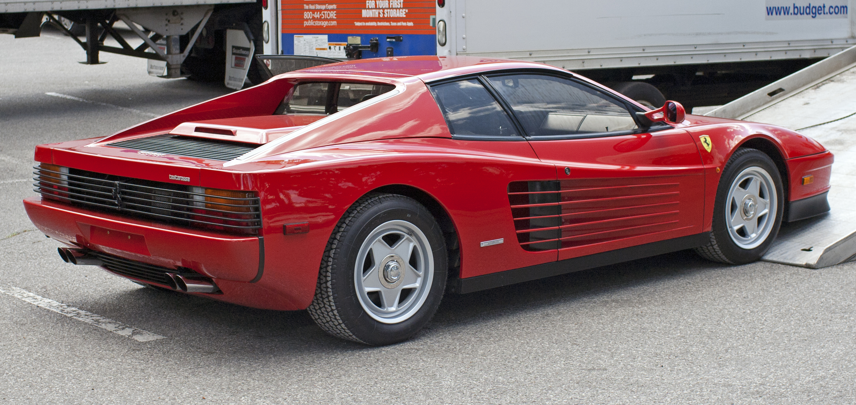 1986 Ferrari Testarossa - chassis number ZFFTA17B000064545, engine number 00651 - being unloaded before the auction at the 2012 Greenwich Concours d'Elegance